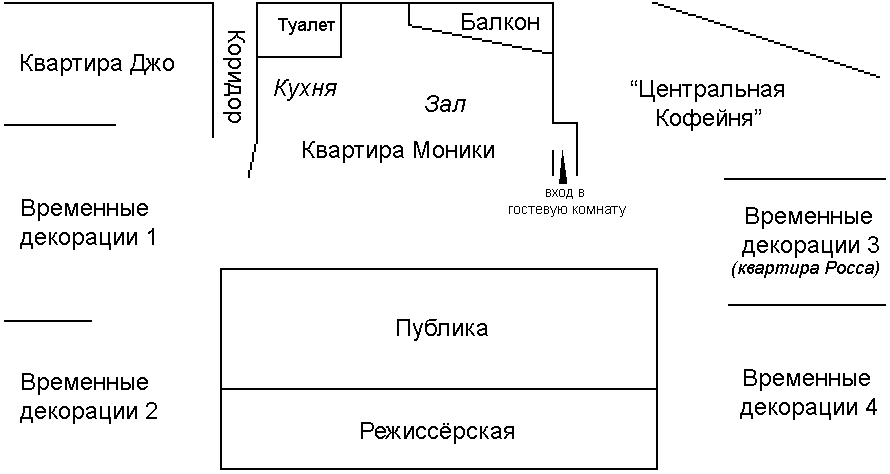 "Friends" show shooting area plan